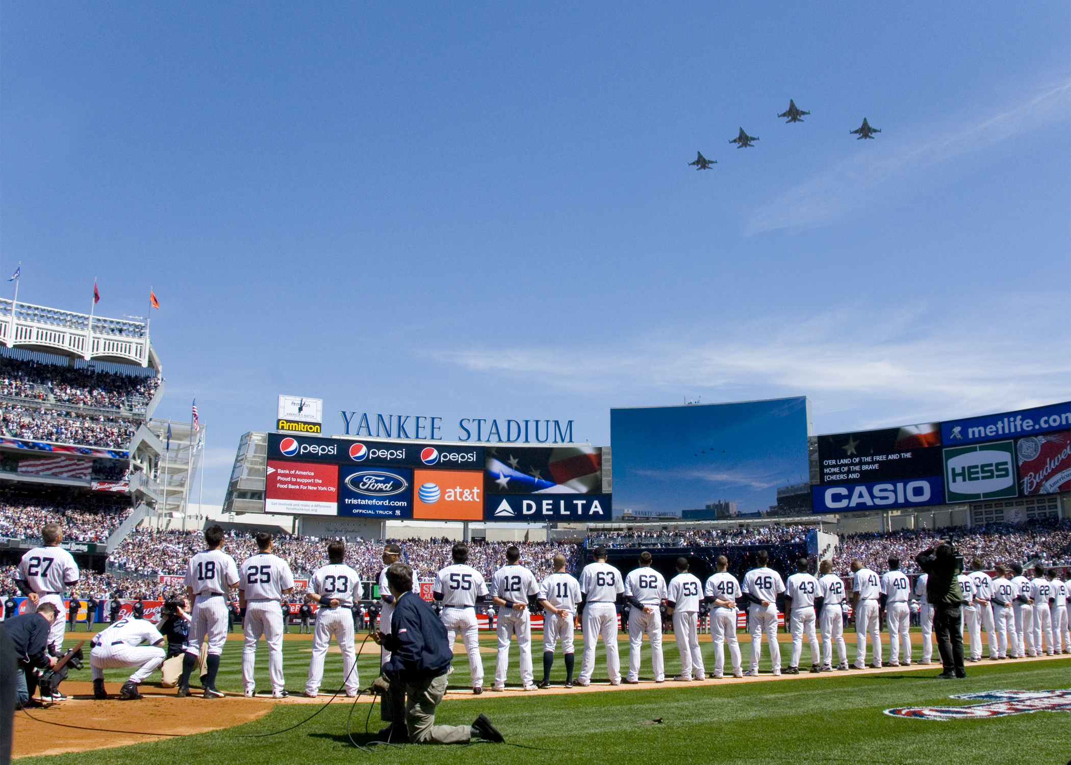 Four F-16C Fighting Falcons from the 174th Fighter Wing, Syracuse New York Air National Guard fly over center field at the "New" Yankee Stadium in Bronx, NY, on April 16, 2009. The jets were part of the Opening Day Ceremony.